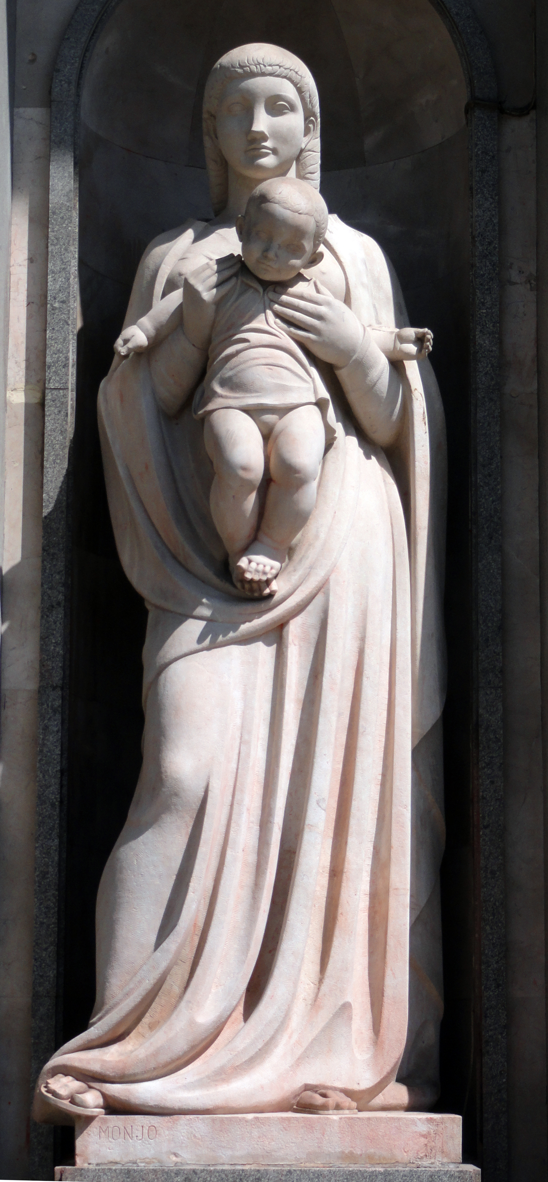 Enric Monjo, sculpture, stone, approximately 240 cm, Location, Passeig de Sant Joan 102, Barcelona, Spain